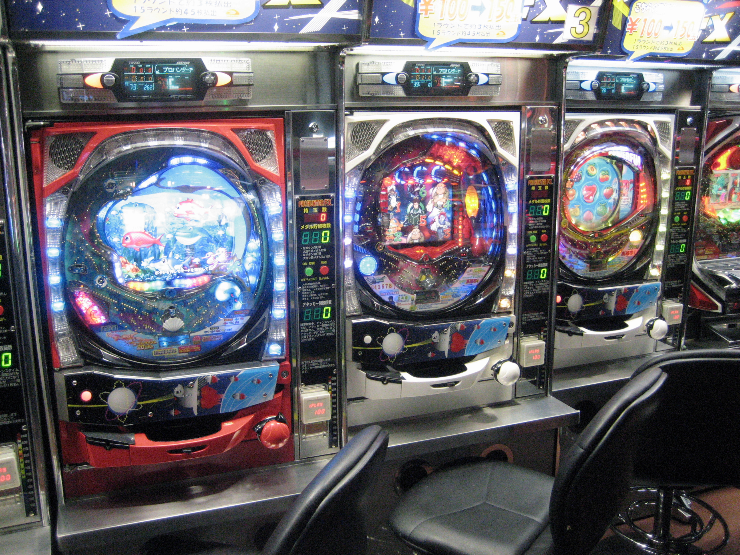 Pachinko in game center.